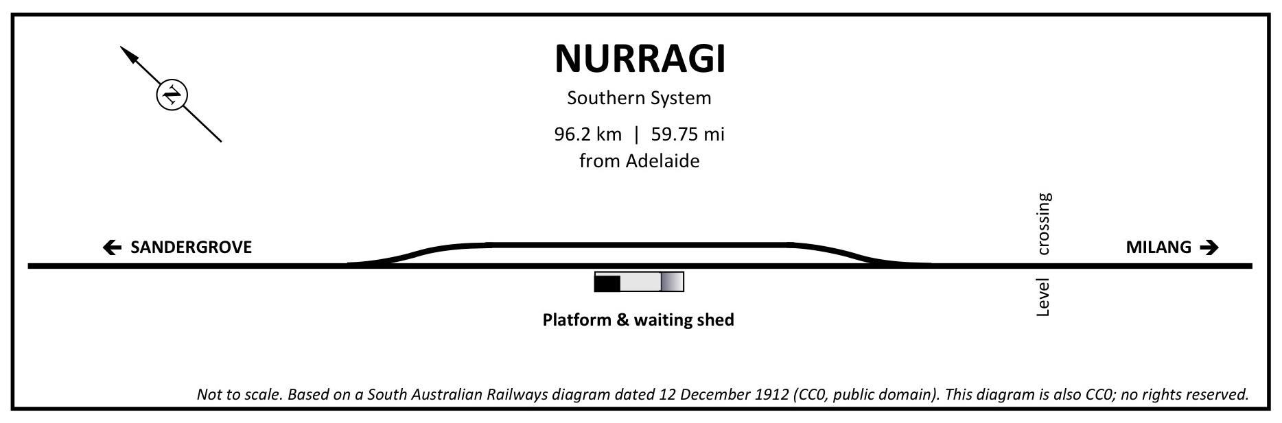 A drawing of the railway track configuration at Nurragi on the Milang branch line (South Australia), in 1912. The drawing is based on a South Australian Railways drawing in the public domain.